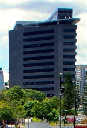 SEBIN headquarters, also know as "La Tumba" in Caracas, Venezuela.